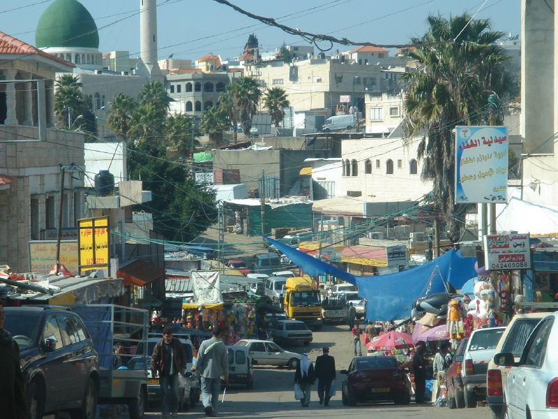 The green line (the 1948 border between Israel and Jordan) passes through the middle of the village (description from Flickr page)